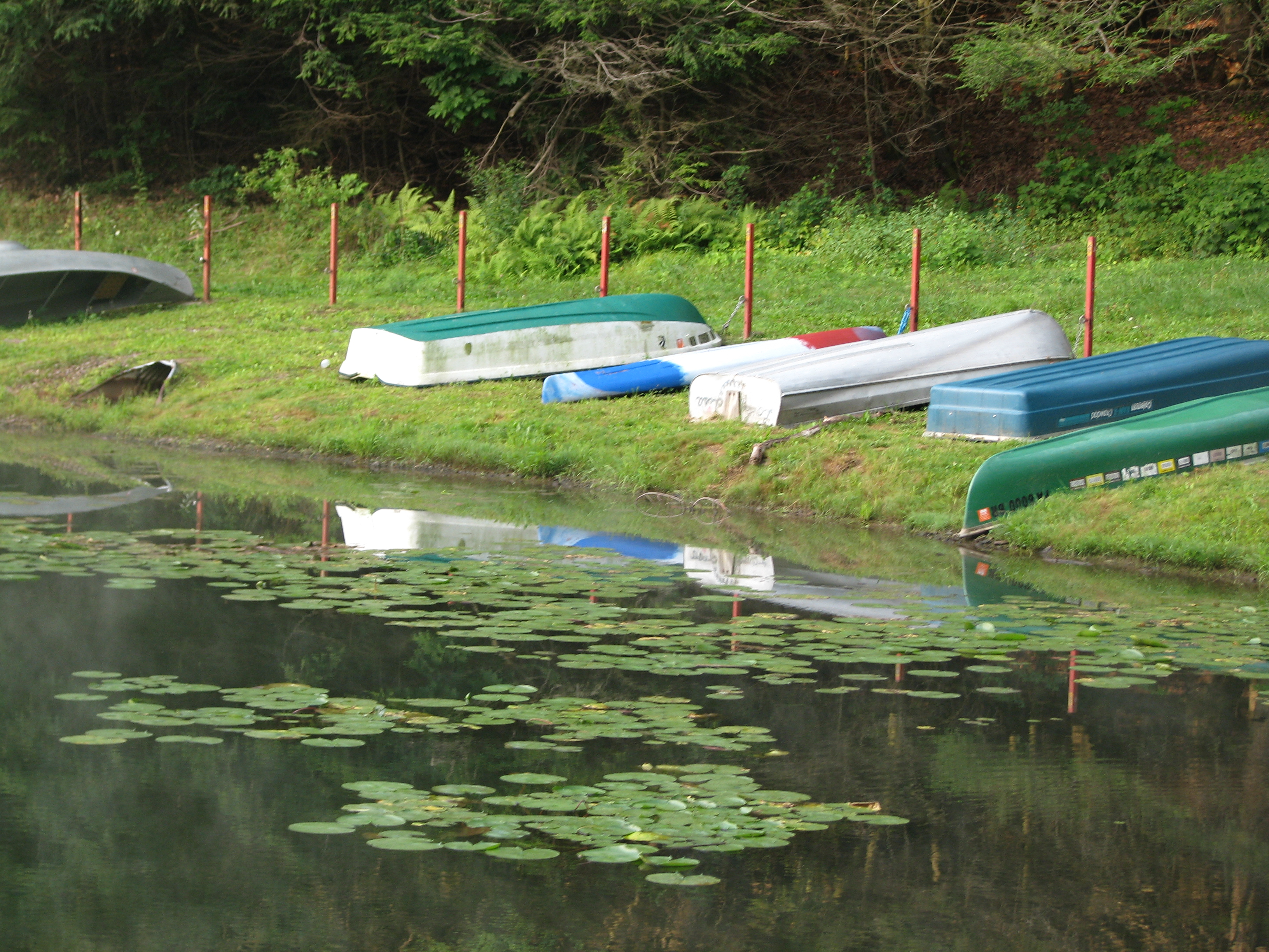 Lily pads and boats at Tuscarora State Park